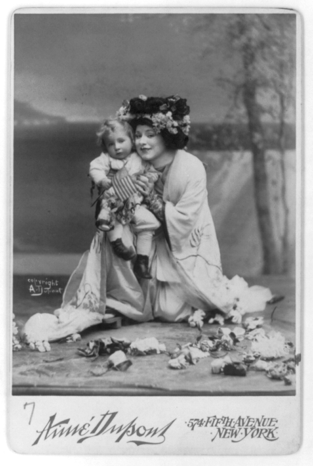 Geraldine Farrar, 1882-1967, full length, kneeling, facing left; in the role of "Madame Butterfly", wearing Oriental costume and holding a small child